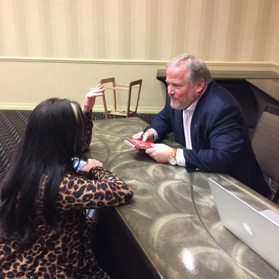 Donn Sorensen at a book signing in Kansas